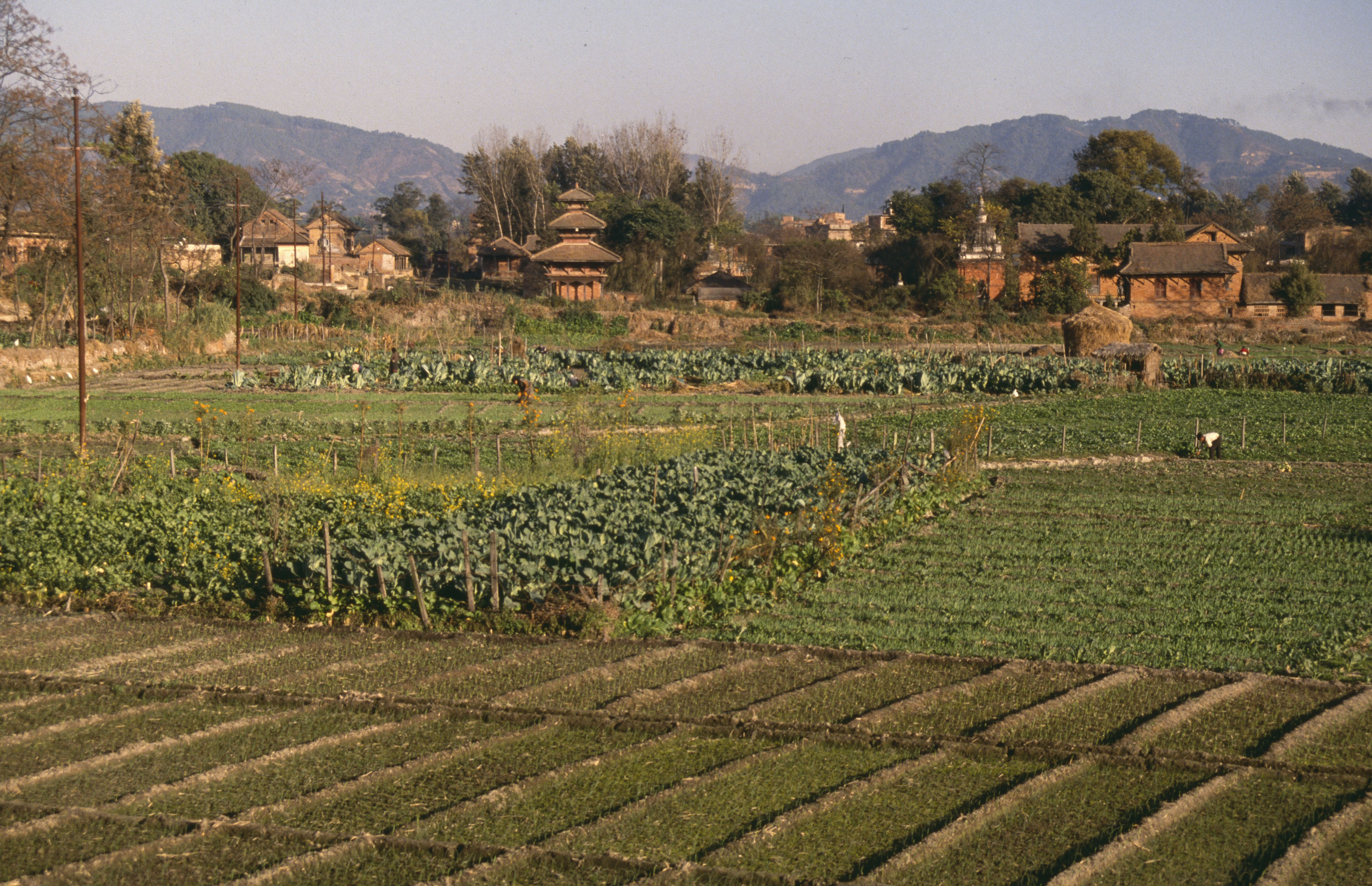 Typical rural landscape in Kathmandu Valley.